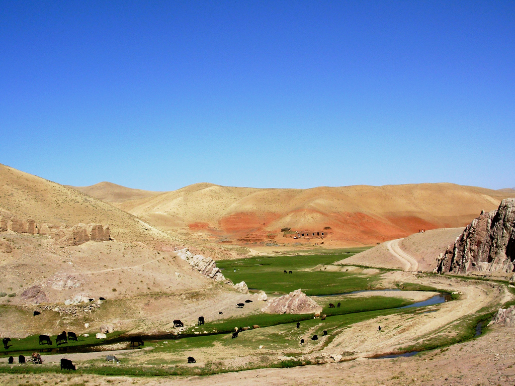 Ghor Province during the summer. (Photo by Vida Urbonaite of Lithuania) Help select a winner for the Afghanistan Matters photo contest.